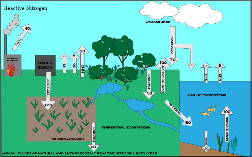 Global reactive Nitrogen fluxes in Tg/Yr